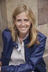 Tinni Ernsjöö Rappe, Swedish author